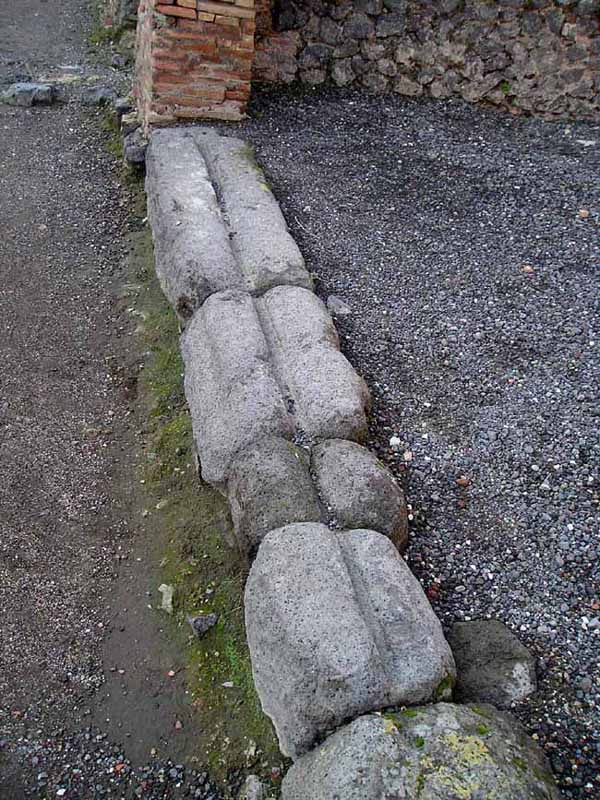 Sliding door tracks at the entrance of a Roman shop in Pompeii.